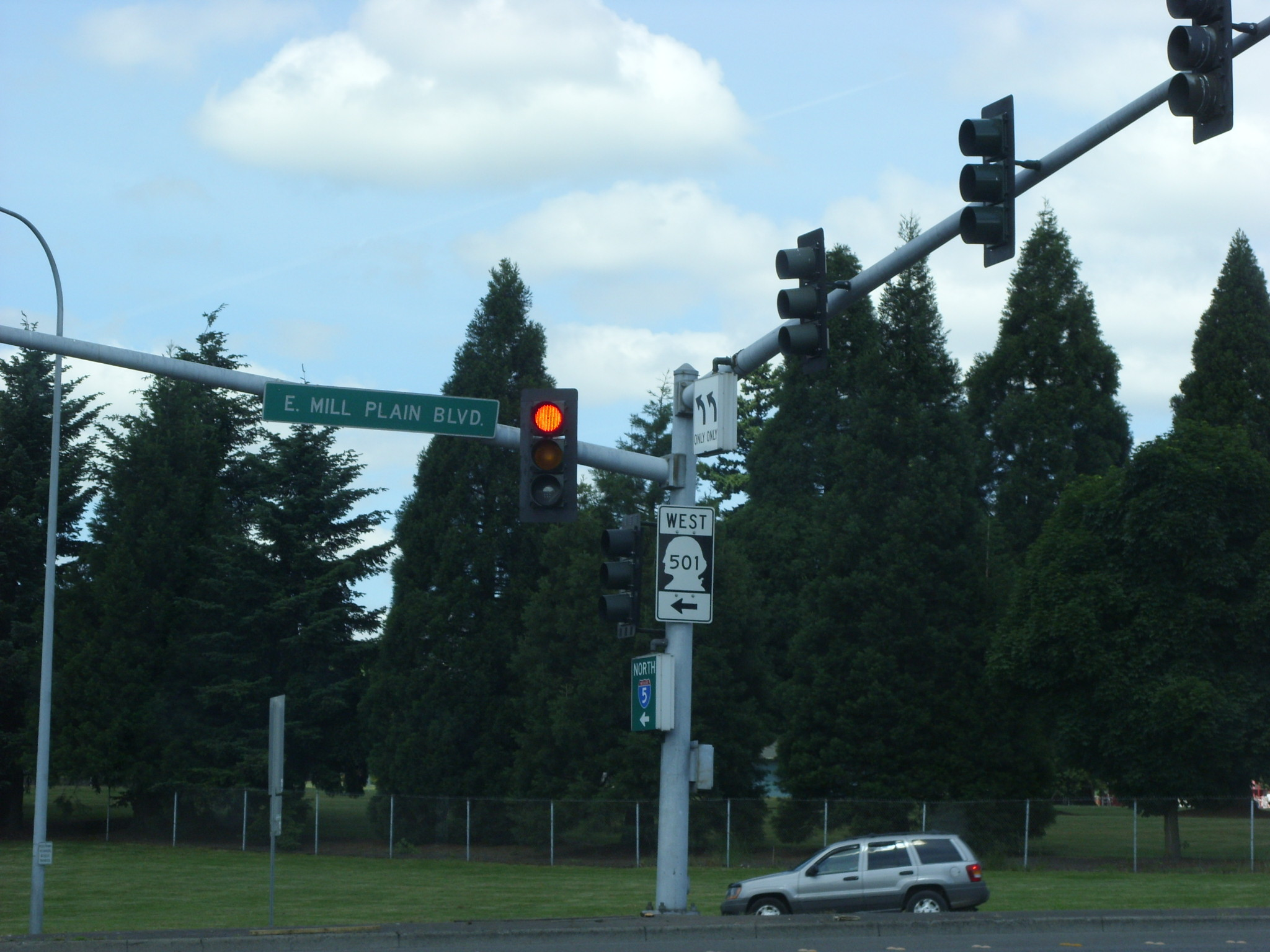 Looking north at the interchange between Interstate 5 and Washington State Route 501 in Vancouver, Washington.